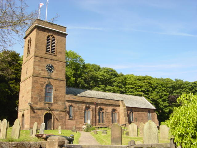 St Nicholas's parish church, Burton, Wirral, Cheshire, seen from the south